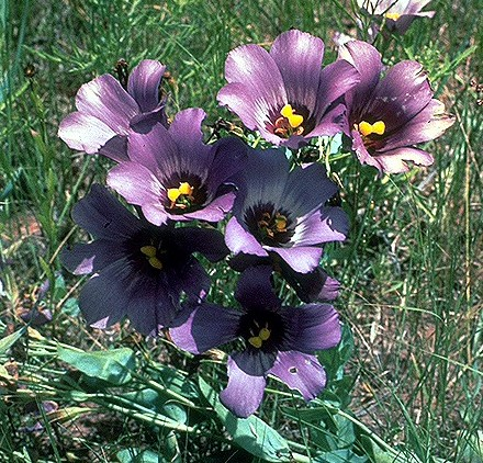 Eustoma exaltatum ssp. russellianum. Courtesy of USDA NRCS Texas State Office. Cropped.